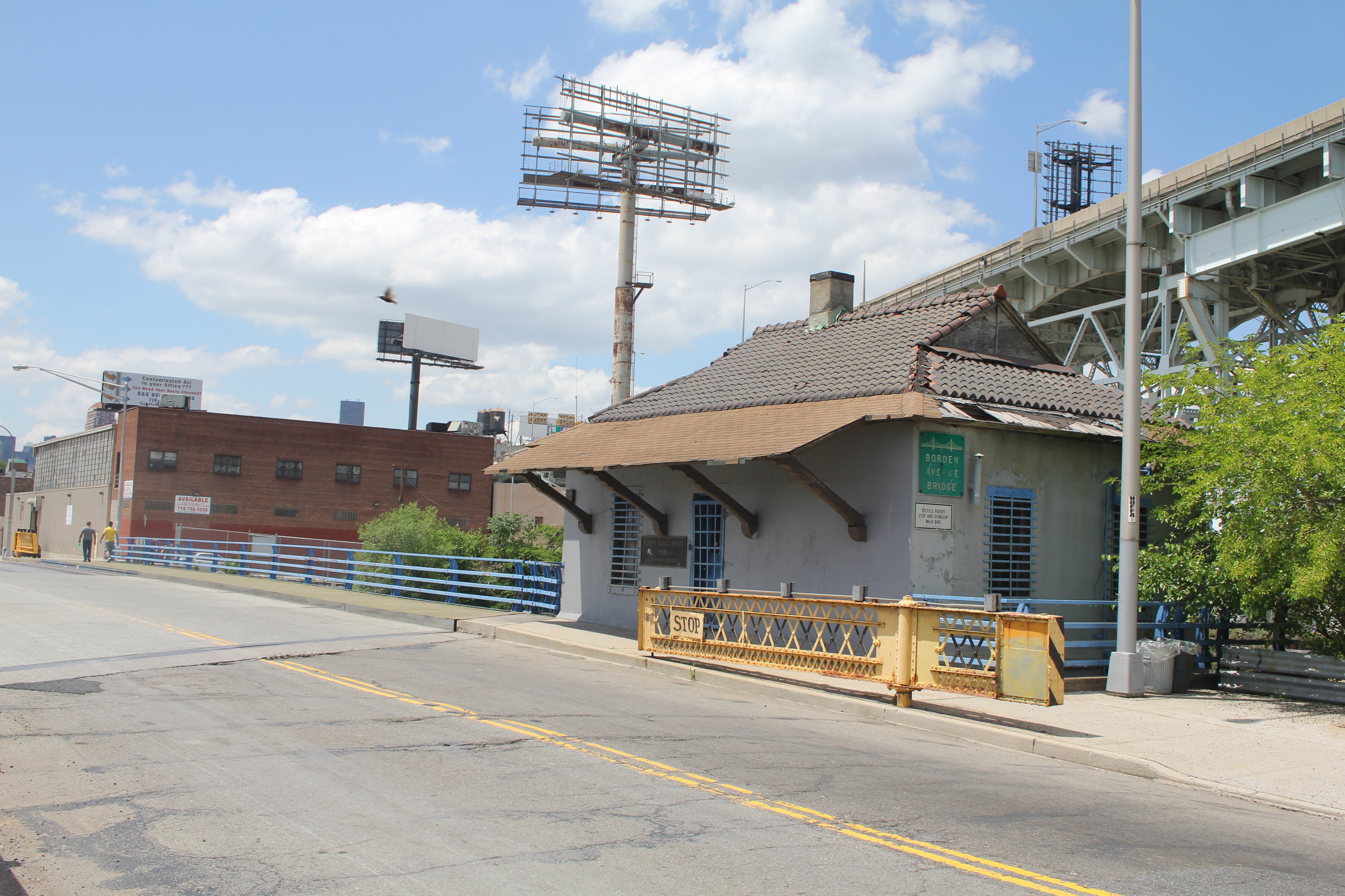 Borden Avenue Bridge in New York City, showing keeper's house and iron gates. Taken in 2014.